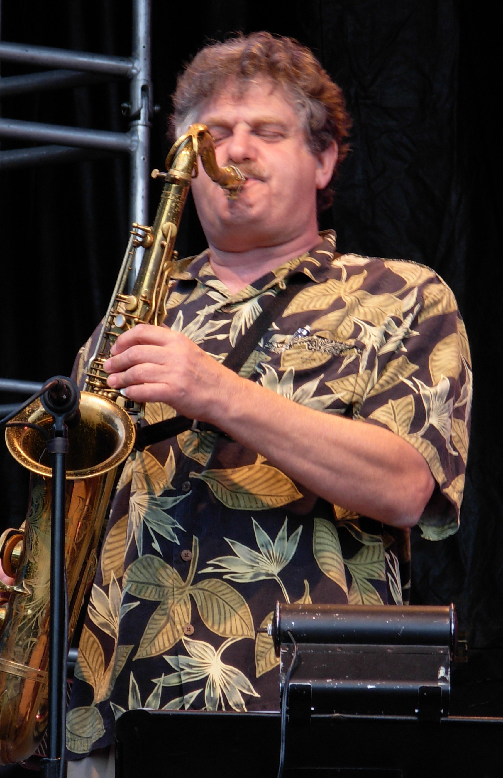 Andy Stein playing saxophone on a live performance of the radio show "A Prairie Home Companion" in Lanesboro, Minnesota.